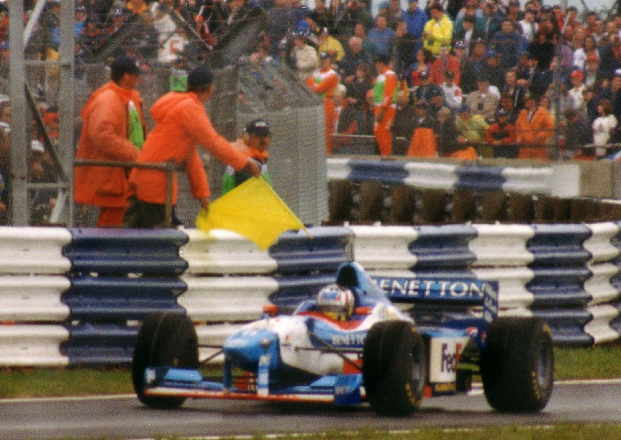 Alexander Wurz passes a yellow flag at the 1997 British Grand Prix at Silverstone.